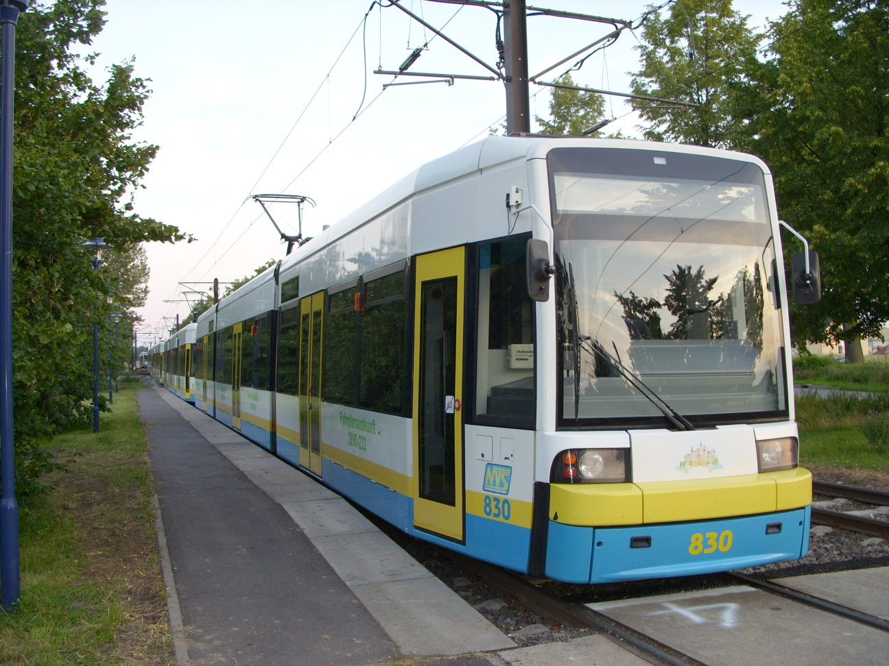 tramways in Schwerin